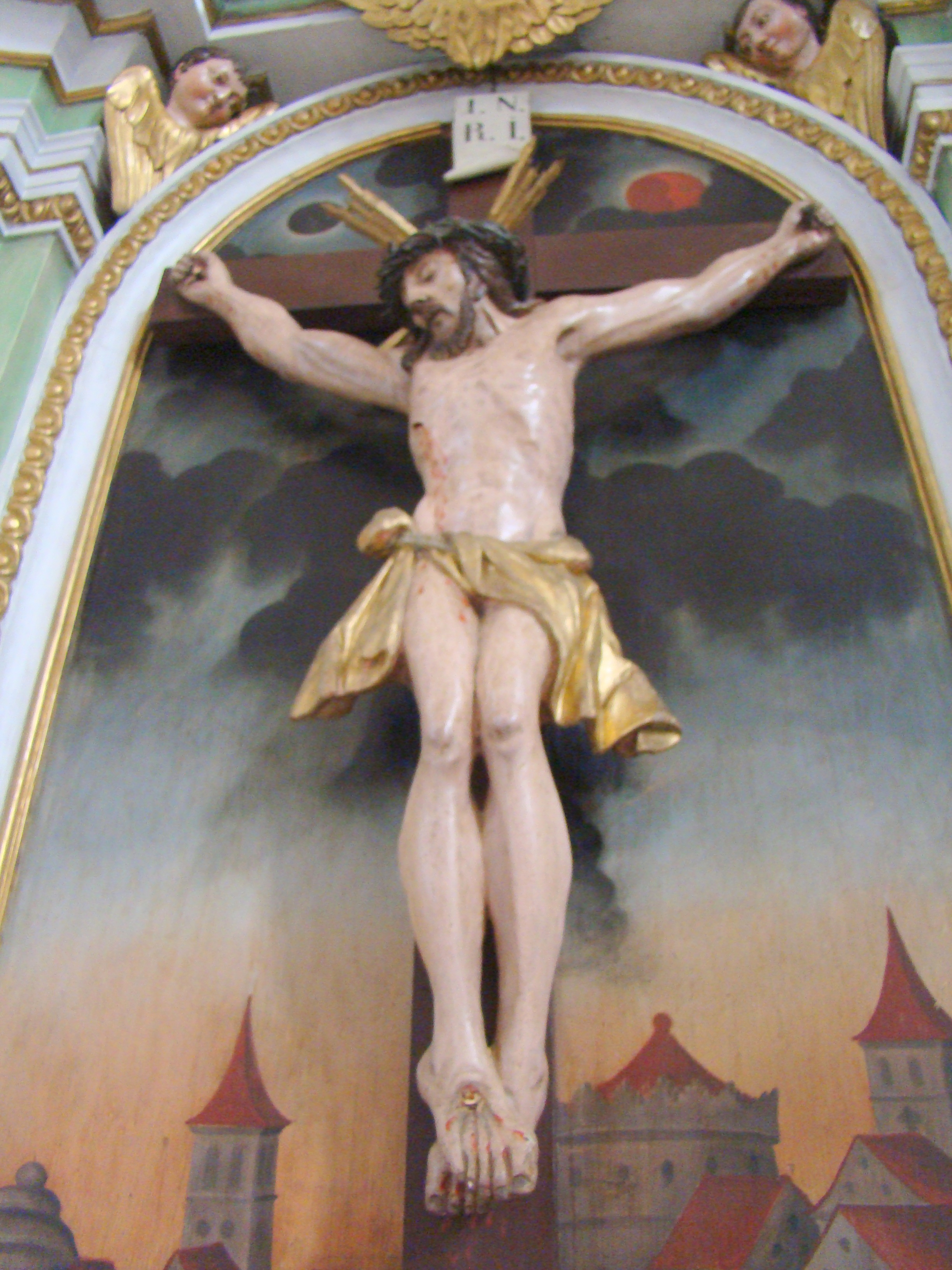 Lutheran church in Făgăraș, Brașov County, Romania